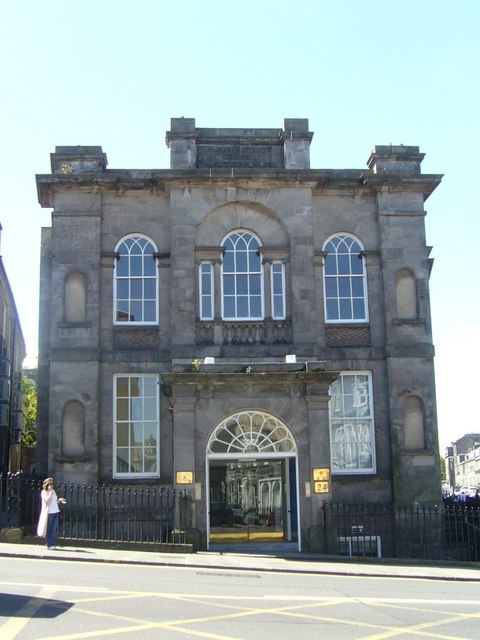 Edinburgh Assay Office, Broughton Street One of the United Kingdom's four assay offices for the official hallmarking of jewellery and silverware. The building was formerly the Albany Chapel.